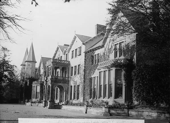 1 negative : glass, dry plate, b&w ; 12 x 16.5 cm.